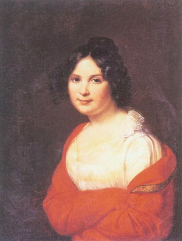 Princess Praskovya Yusupova